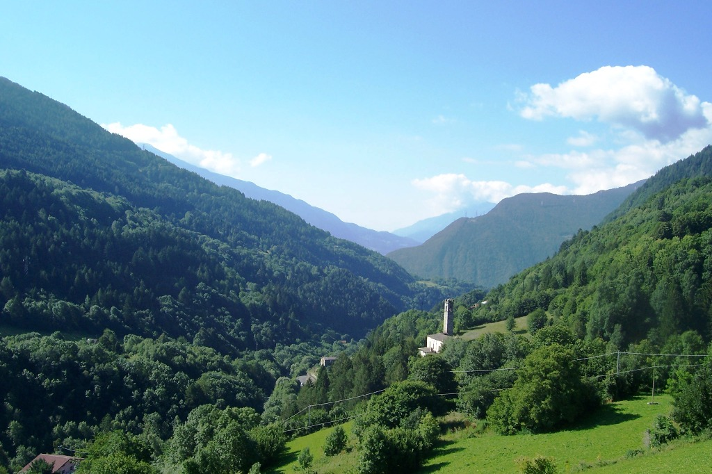 Church of S. Brice. Monno, Val Camonica, Italy